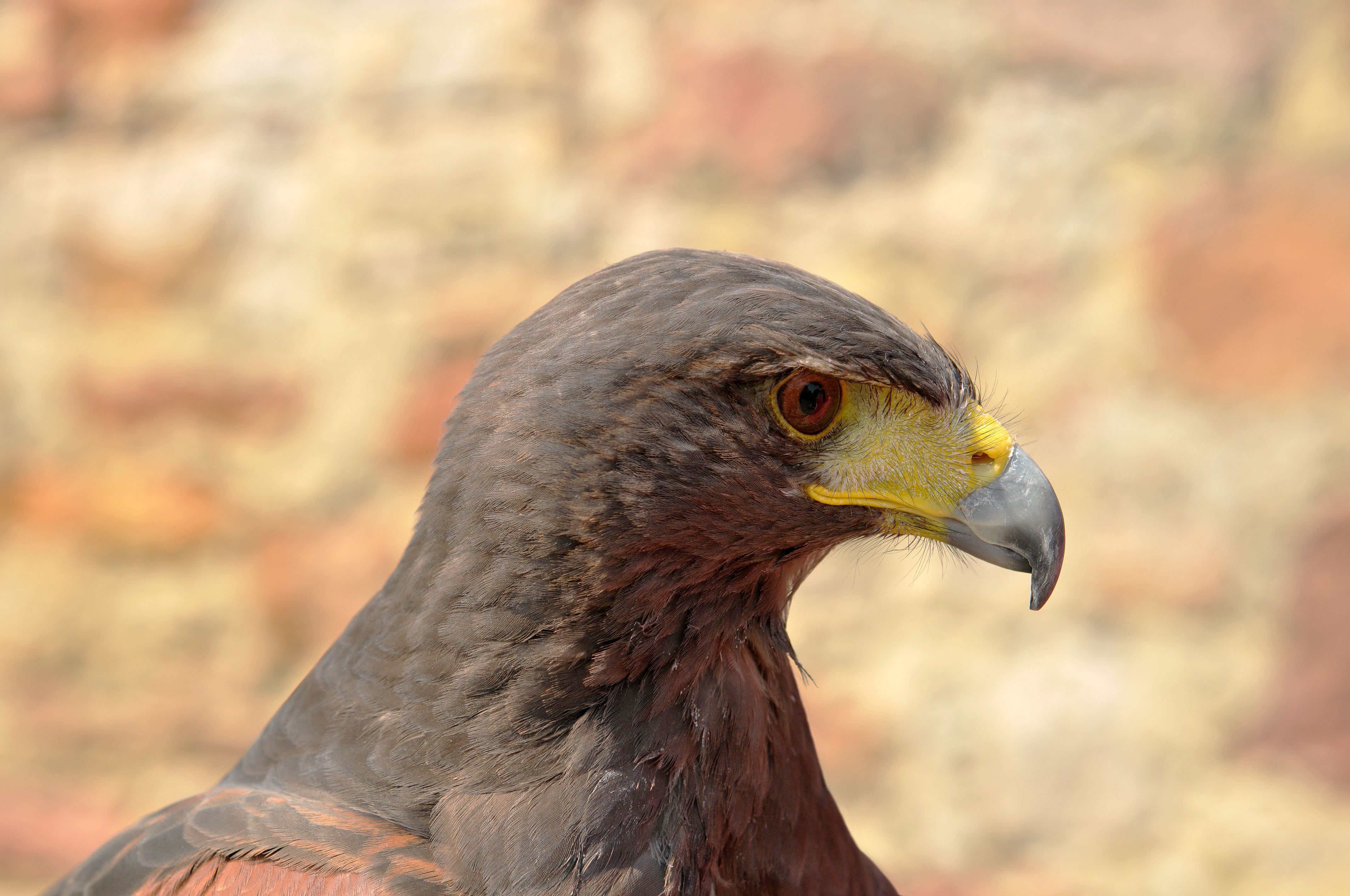 Harris's Hawk in front of a natural stone wall in the Sababurg game park near Hofgeismar, district Kassel, Hesse, Germany.